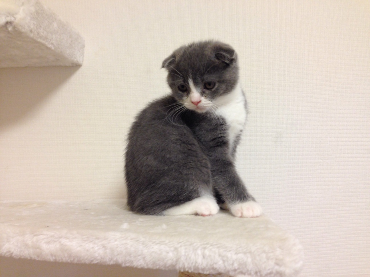 Scottish Fold. Cat. Kitten. Blue and White.